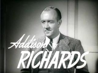 Cropped screenshot of Addison Richards from the film Nick Carter, Master Detective